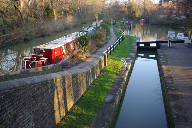 Isis Lock, Oxford The canal layout in Oxford is complicated. Isis lock gives boats from the Oxford Canal access to the River Thames, requiring a sharp right turn at the bottom of the lock (note the sign to boaters) and then passage through a short cut under a very low railway bridge.